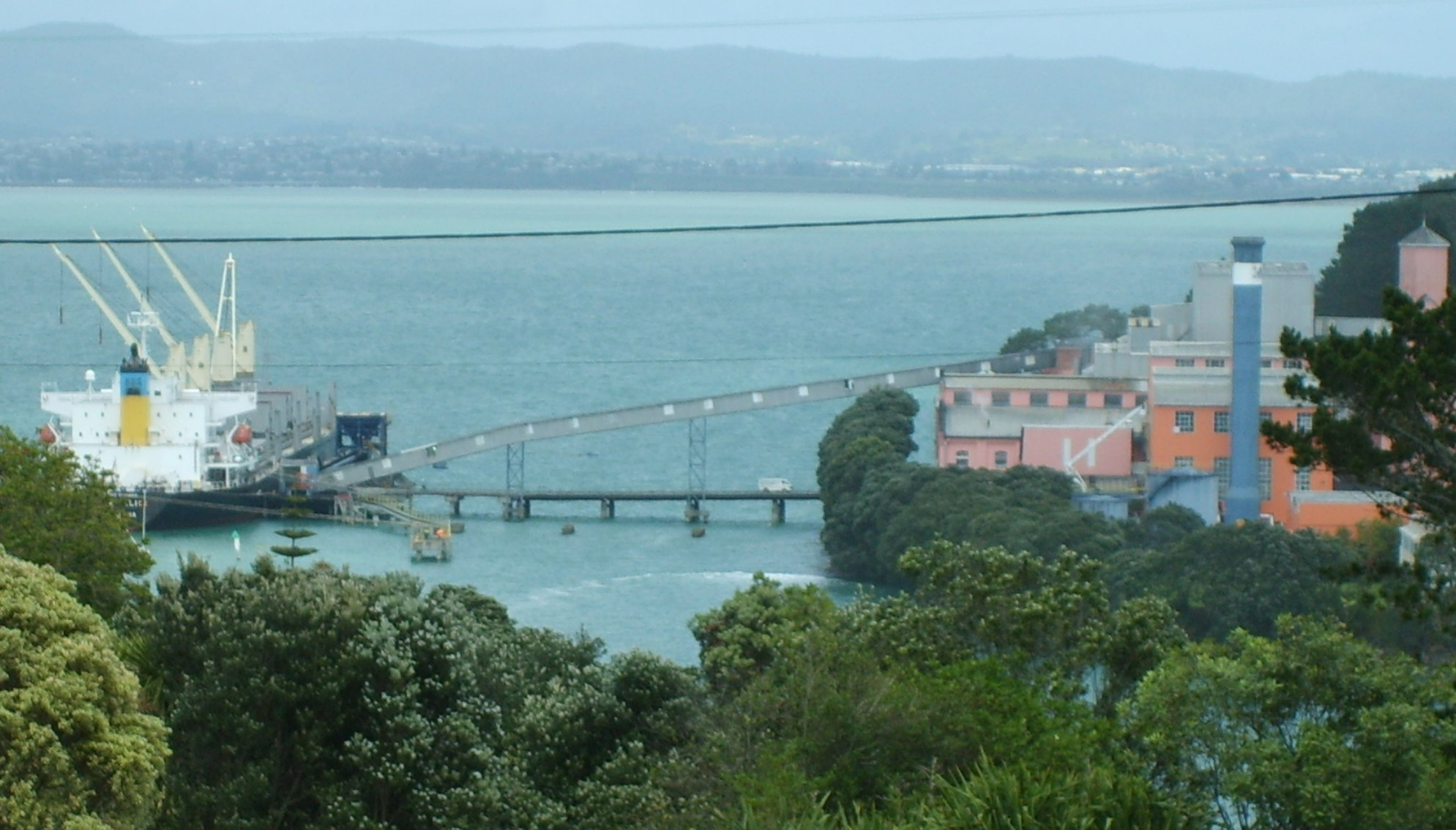 Chelsea Sugar Refinery from Palmerston Road, showing the Port Alice bulk carrier (IMO 9311402) docked for unloading.